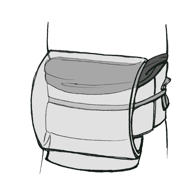 A greyscale drawing of a drum knot (taiko musubi or otaiko musubi) and its structure. Related to: obi, kimono, kitsuke